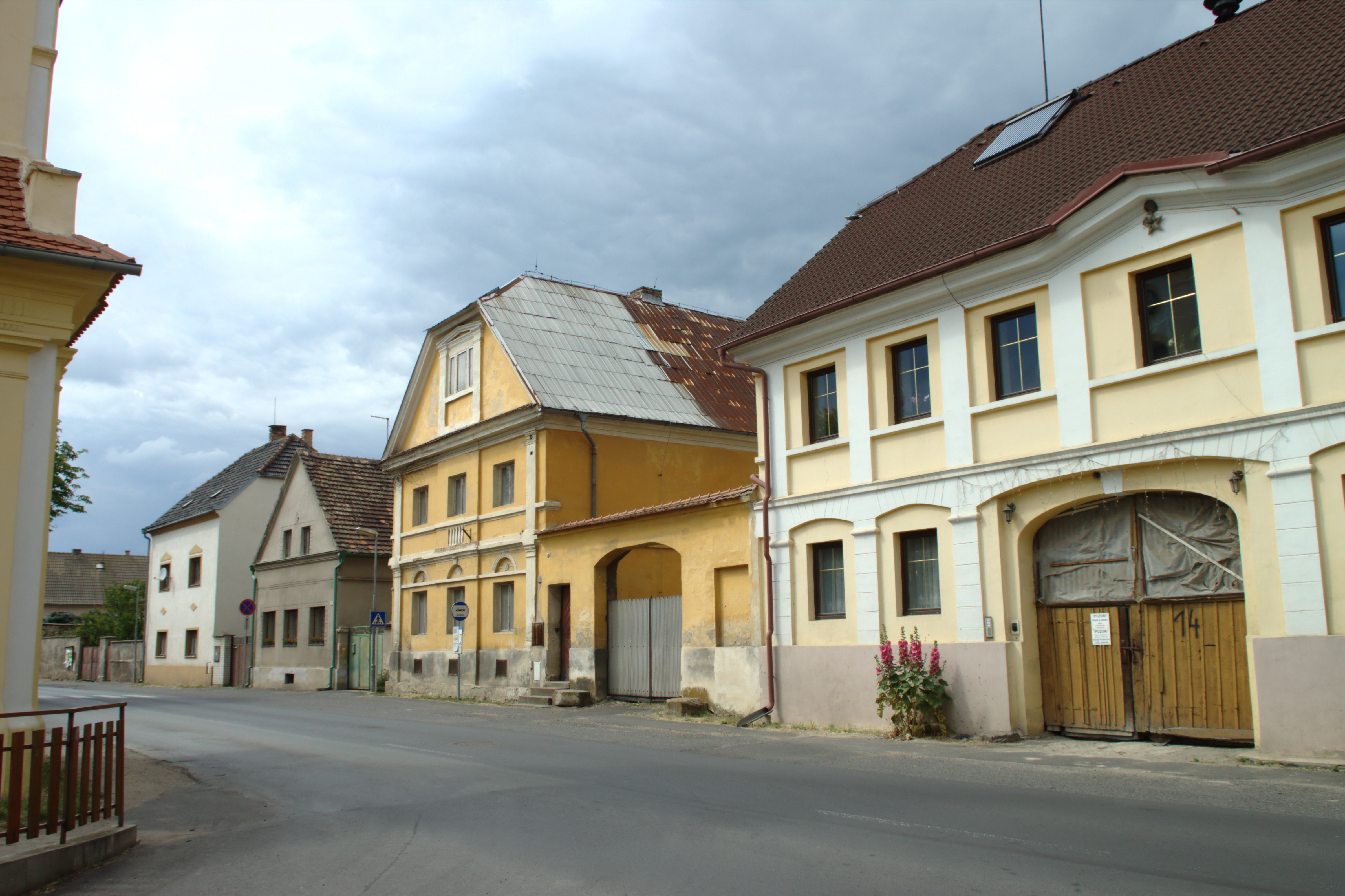 Buildings at the main road in the town of Vrutice, Ústí Region, CZ